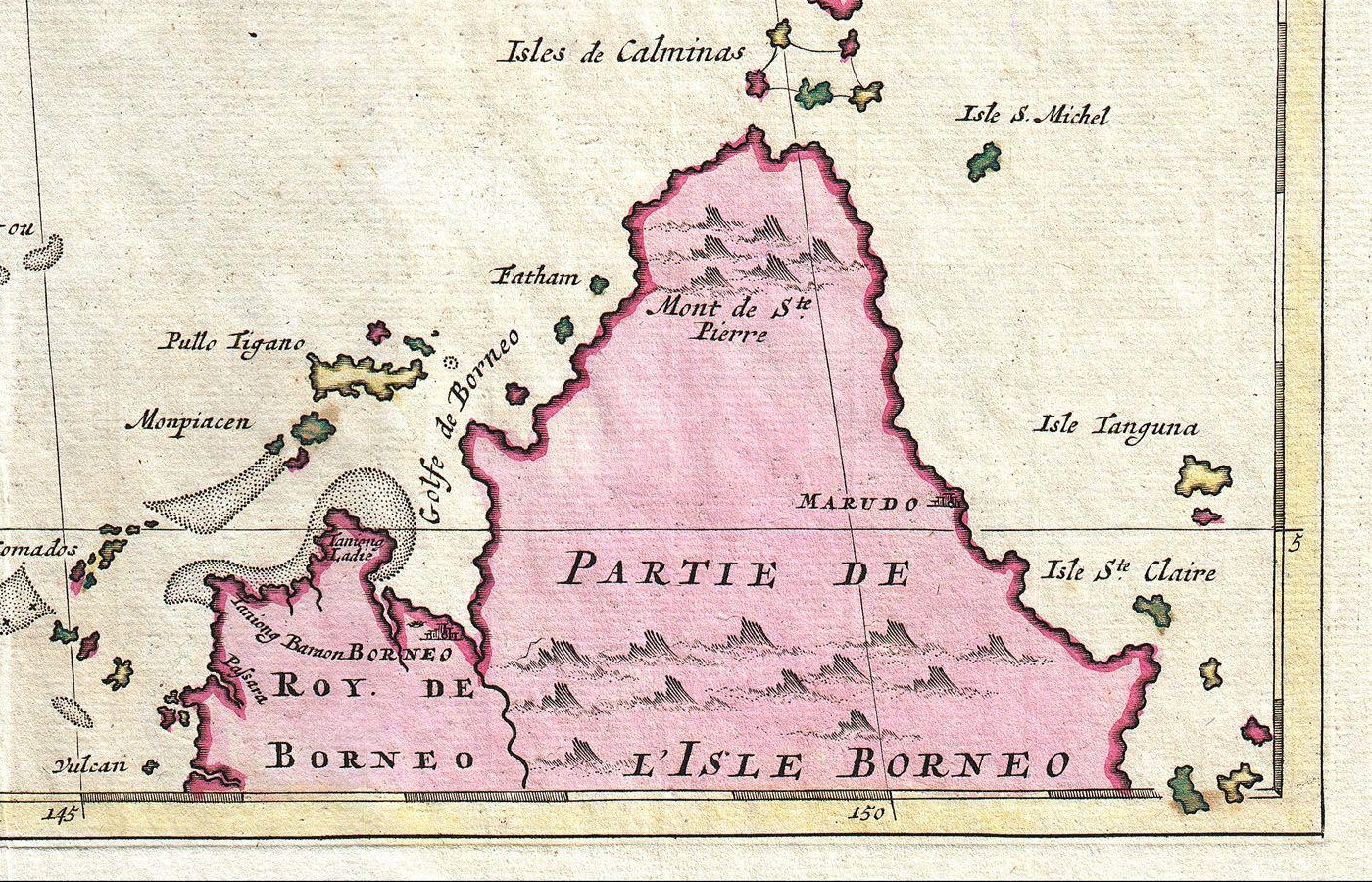 Northern Borneo. This 1710 Ottens map is one of the example where Mount Kinabalu on the island of Borneo was called as Mount St. Pierre in old maps made by European cartographers.